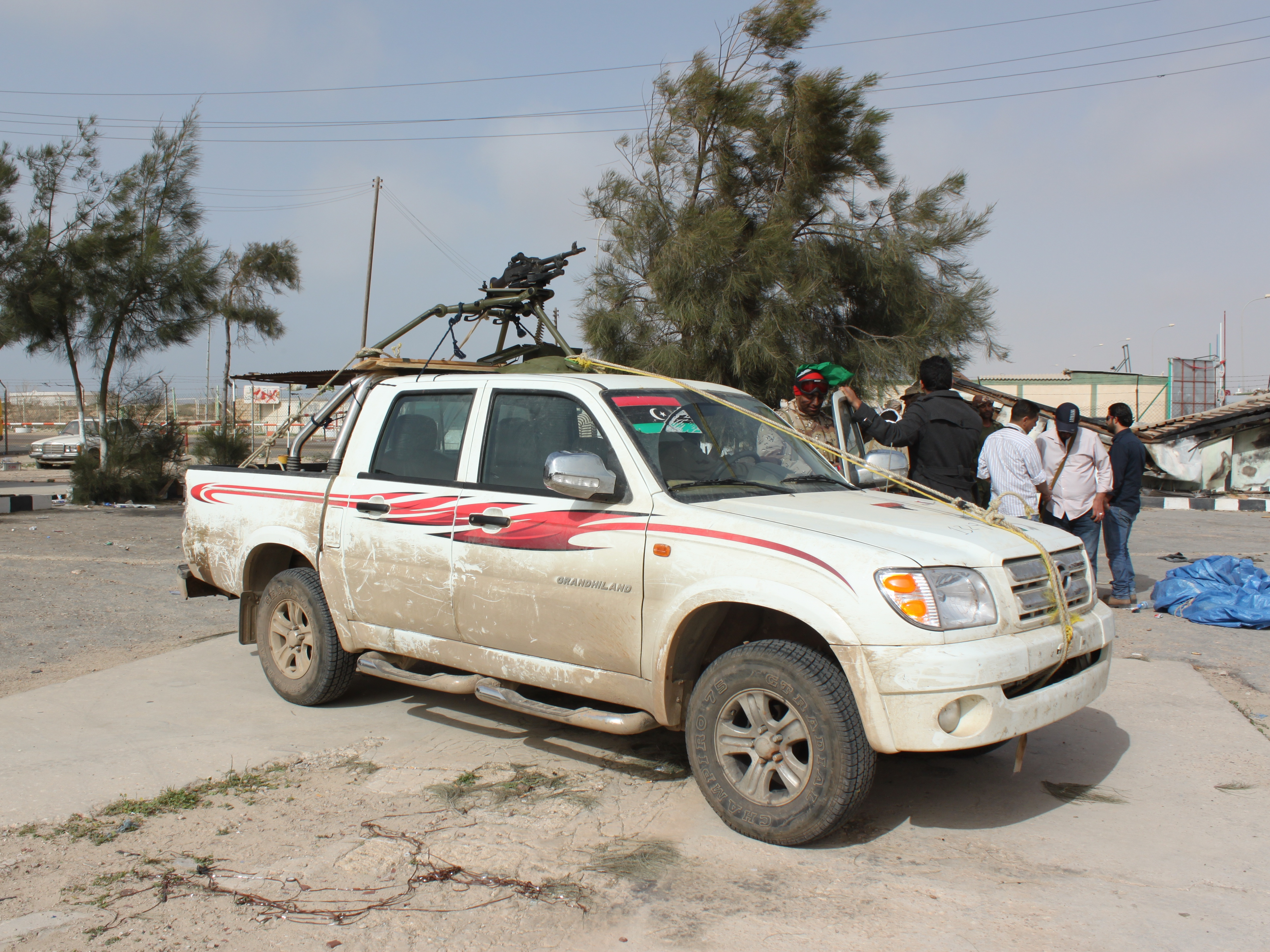 At the main checkpoint near the strategic oil town of Brega, men with what appeared to be better equipment and gear than their untrained comrades began to assemble. They wore emblems indicating their position as engineers or paratroopers and said they were defected "special forces" from Benghazi who were awaiting orders. Despite their more impressive appearance, they still seemed to lack the kind of discipline one might see in Western militaries, or perhaps even Gaddafi's own forces.